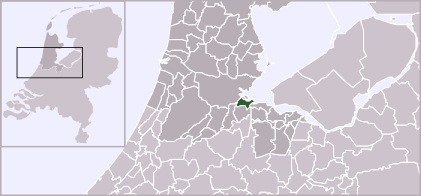 Locator map of Dutch municipalities in Noord-Holland (LocatieDiemen.png)